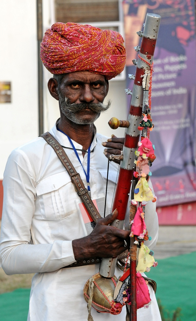 A Rajasthani Folk Singer with his Ravanhatta at the Akhyan festival in Indira Gandhi National Center for the Arts (IGNCA), near India Gate New Delhi. Ravanhatta is mostly used by Bhopas, who are religious nomadic folk musicians. Ravanhatta is a primitive string fiddle with one metal and several other strings which may include horse hair and synthetic material. The bow has several bells attached to it and by giving a jerk to the bow, it also provides the rhythm for the lilting music.